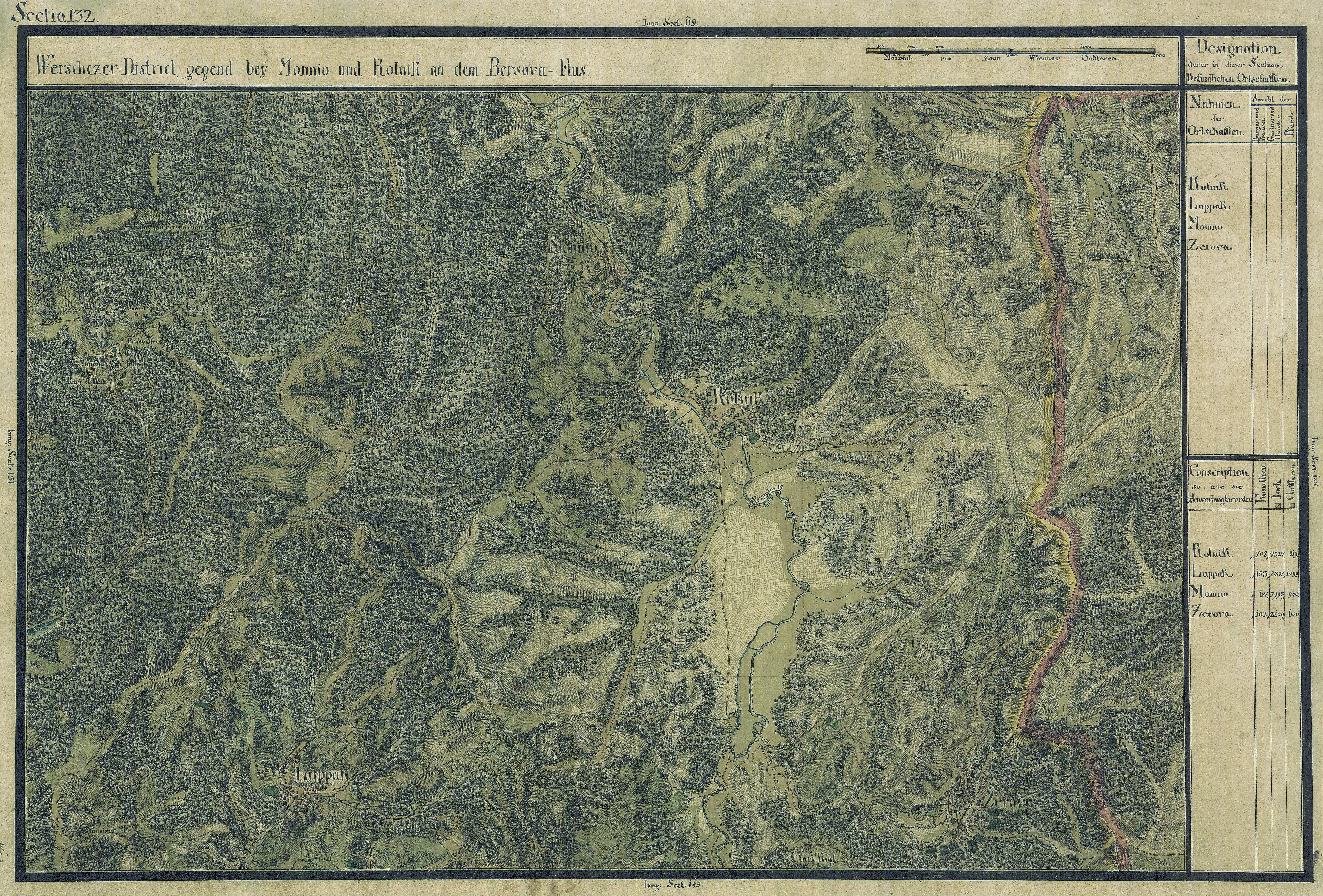 The Banat region in the cadastral maps: Josephinische Landesaufnahme, 1769-72. Josephinische Landaufnahme pg132